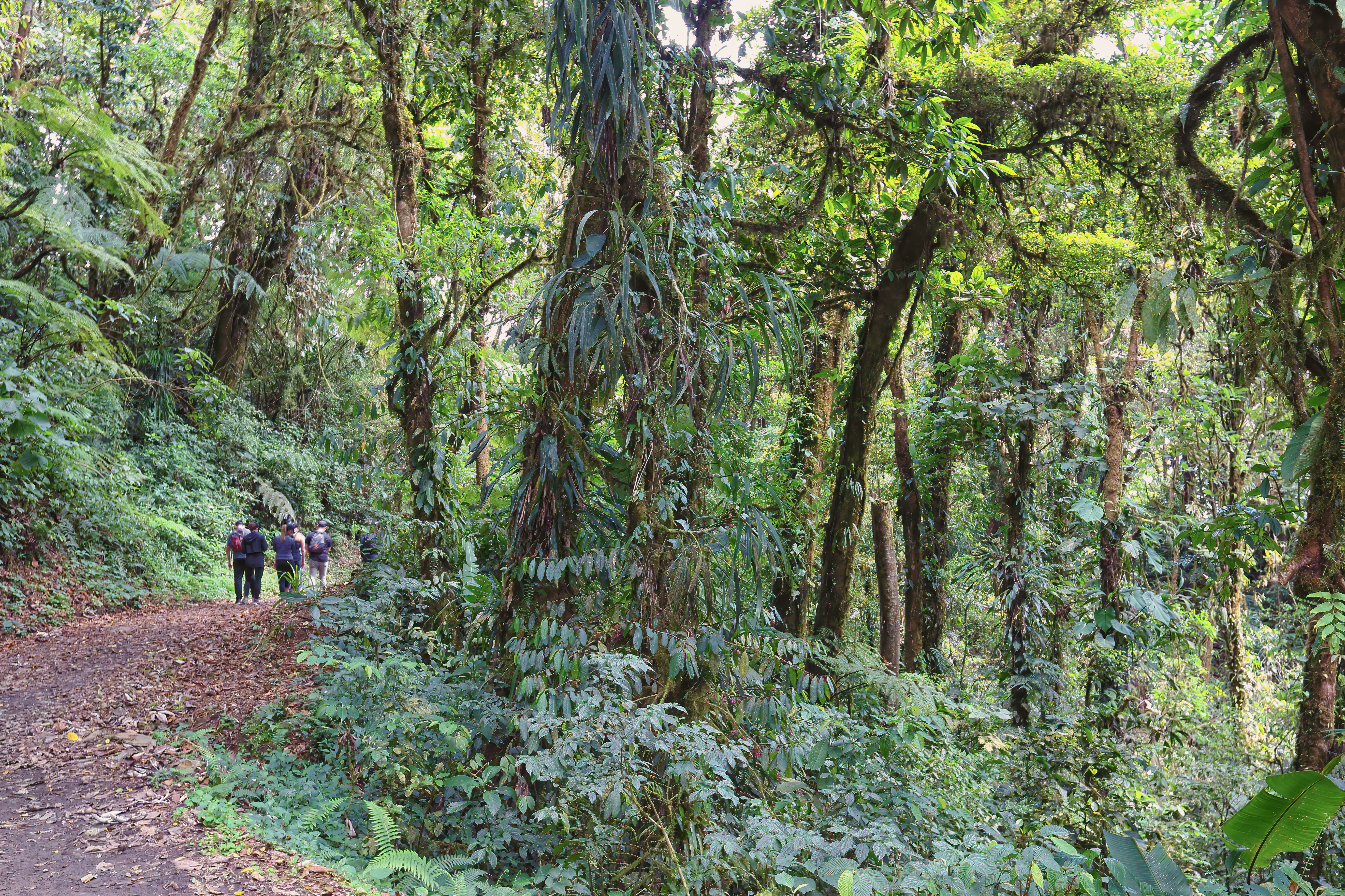 Monteverde Cloud Forest Reserve, Monteverde, Costa Rica